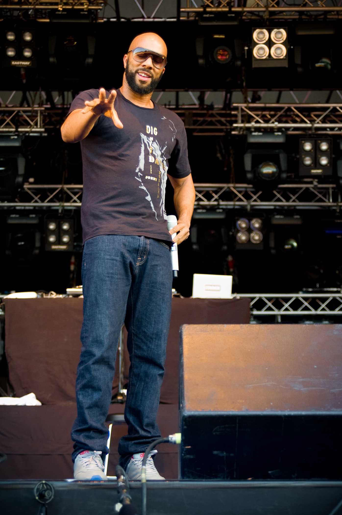 Rapper Common performing at the Ilosaarirock festival on the 13th of July 2008 in Joensuu, Finland.